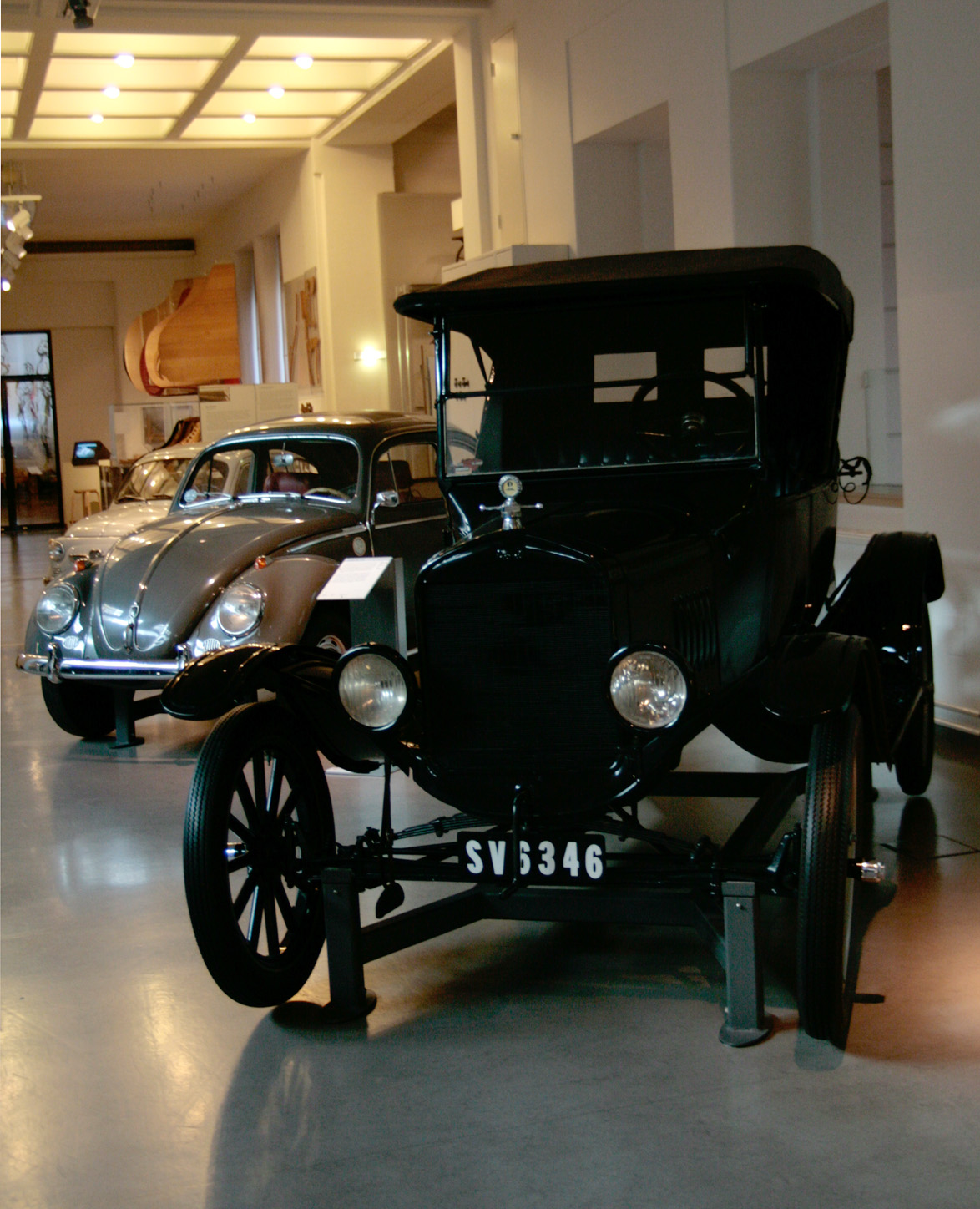 Ford Model T (1923) and Volkswagen Beetle (type 11 Luxus, 1962) at the Vienna Technical Museum